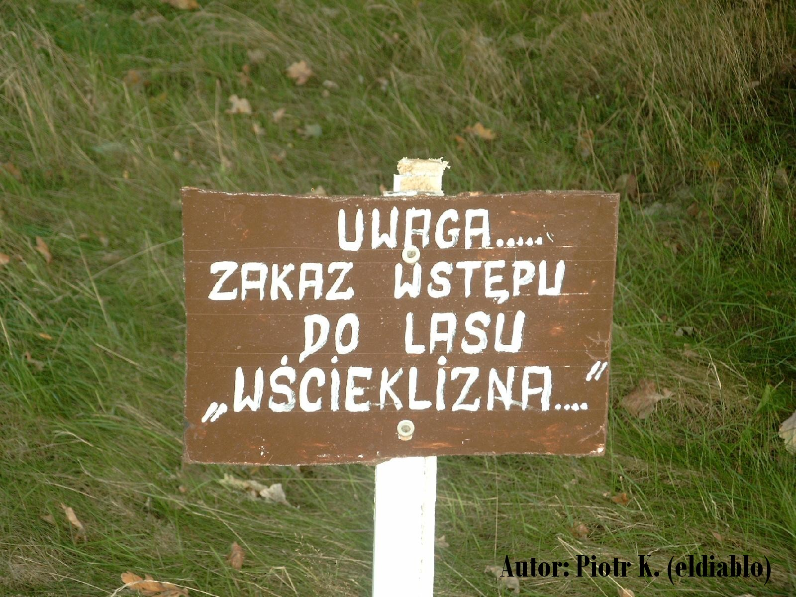 Osłonki forest. Rabies warning